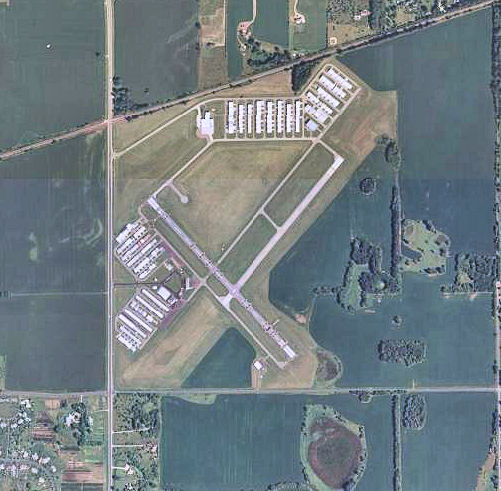 USGS digital orthophoto of Lake Elmo Airport in Minnesota